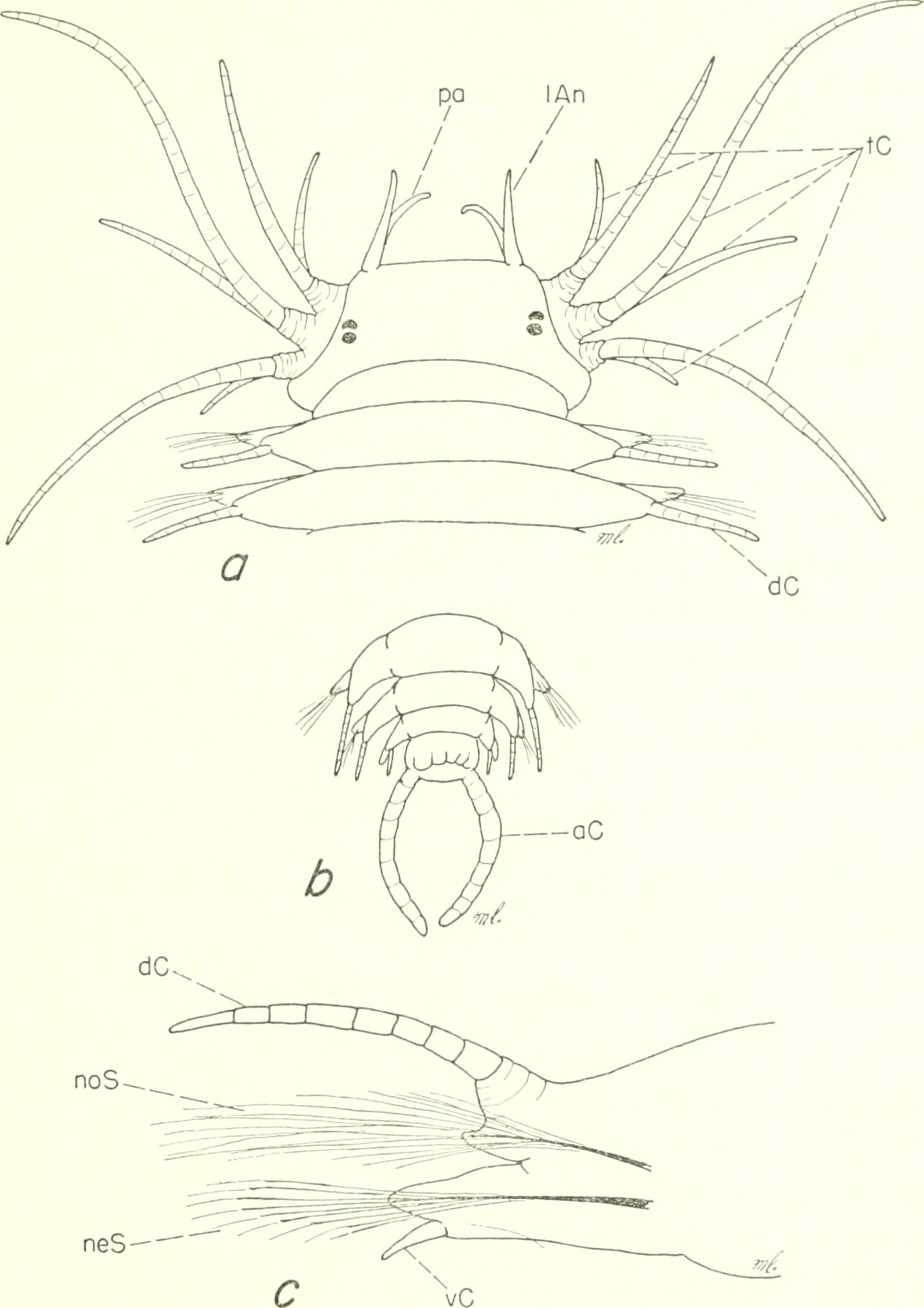 Title: Bulletin - United States National Museum Year: 1877 (1870s) Authors: United States National Museum; Smithsonian Institution; United States. Dept. of the Interior Subjects: Science Publisher: Washington : Smithsonian Institution Press, (etc. ); for sale by the Supt. of Docs. , U. S. Govt Print. Off. Text Appearing Before Image: POLYCHAETE WORMS, PART 1 109 Text Appearing After Image: neS — Figure 29.—Hesionidae, Parahesione liiteola: a, dorsal view anterior end; h, dorsal view posterior end; c, parapodium. Biology.—Found at low water on oyster shells in sandy mud flats and silty sand. Found on sandy flats with rubble, Kving commen- sally in the burrows of the ghost shiimp Upogebia qffinis (Say). Moves rapidly and easily escapes notice. Some were massed with greenish eggs in July (Wellfleet Harbor, Massachusetts, July 3, 1954). Material examined.—Type of Hesionc agilis. Also Massachusetts (Wellfleet, Cape Cod), Georgia (Sapelo Island, mud, J. M. Teal), Florida (Seahorse Key, J. Taylor). DisTuiBUTioN.—Massachusetts (Cape Cod), New Jersey, Georgia (Sapelo Island), Gulf of Mexico (Florida). In low water.